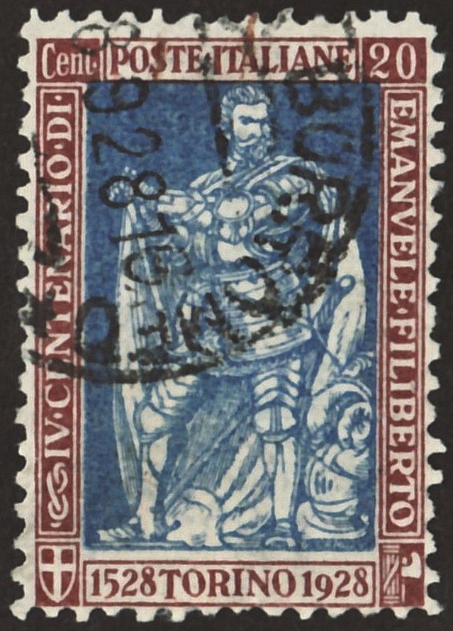 Stamp of the Kingdom of Italy; 1928; commemorative stamp of the issue to the "400th anniversary of Emmanuel Philibert, Duke of Savoy (1528-1580)"; drawing after a painting of Giovanni da Milano (1592-1636); effigy framed with inscriptions, the coat of arms of Savoy, a Figure-eight knot, and a stylized "Fascio" as symbol of the Italian Fascist state; postmarked in Peschiera Borromeo (Region Lombardy) in 1928; stamp variety with perforation L 11 (= type "A") Stamp: Michel: No. 285A; Yvert & Tellier: No. 213; Scott: No. 201 Color: azure / brown Watermark: Italy No. 1 (crown) Nominal value: 20 Cent. (Centesimi) Postage validity: from 4 August 1928 until 31 December 1929 Stamp picture size (printed area): 22.0 x 32.0 mm Postmark: Peschiera Borromeo (Region Lombardy), September 1928